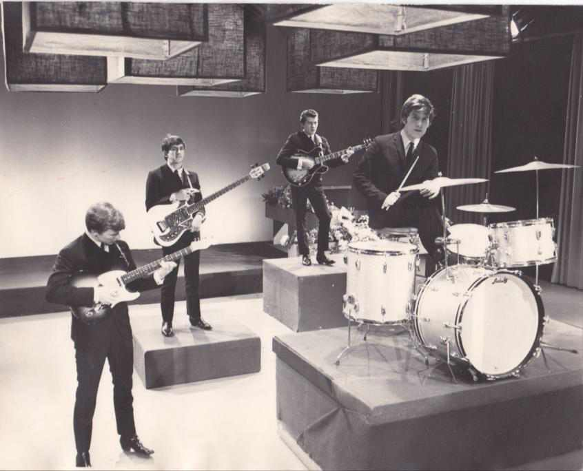 The Searchers playing in TV-show Nuorten tanssihetki on year 1964